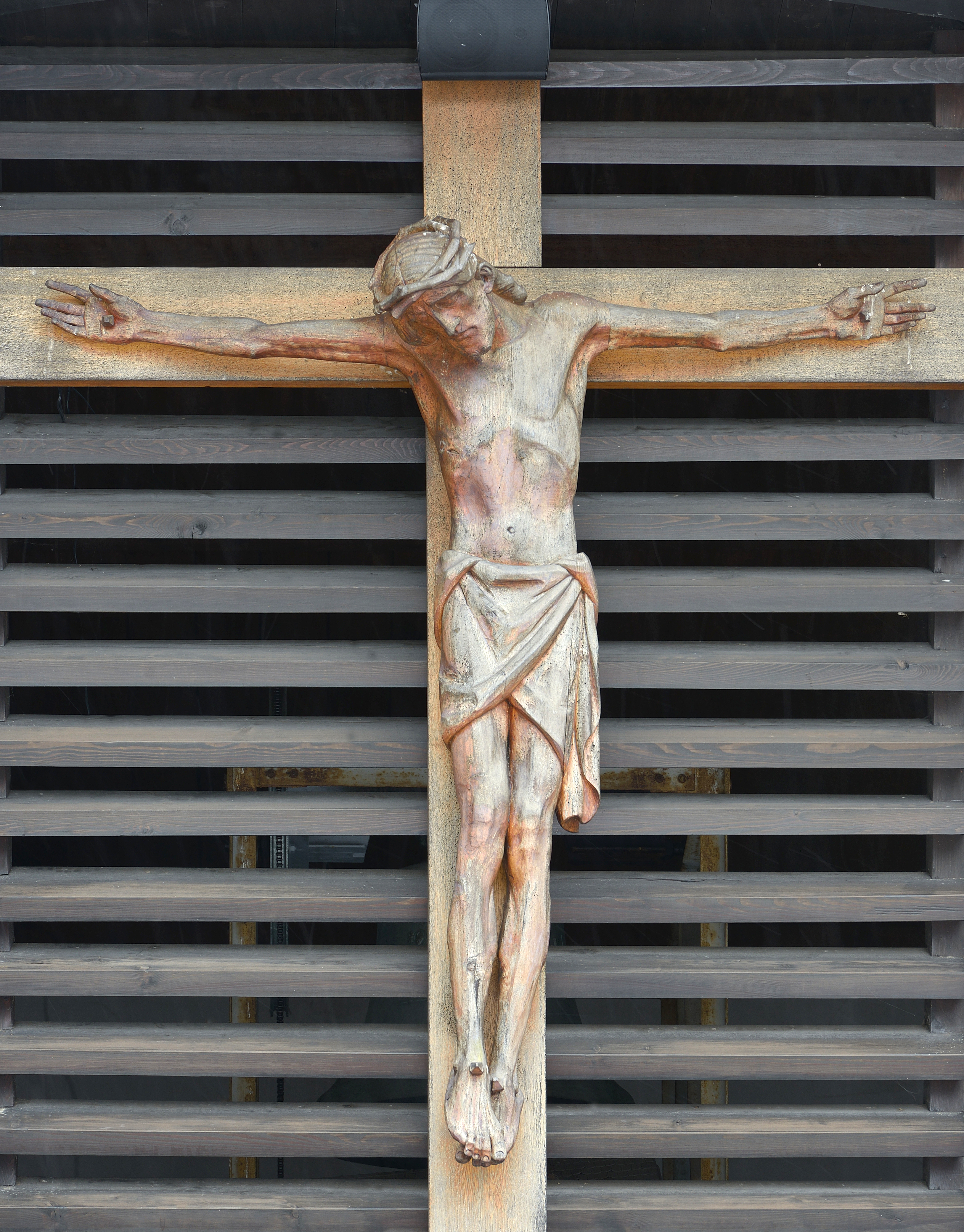 Crucifix by Otto Moroder